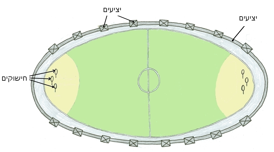 A derivative of the original file, cropped it in GIMP, and added some text in Hebrew to it.